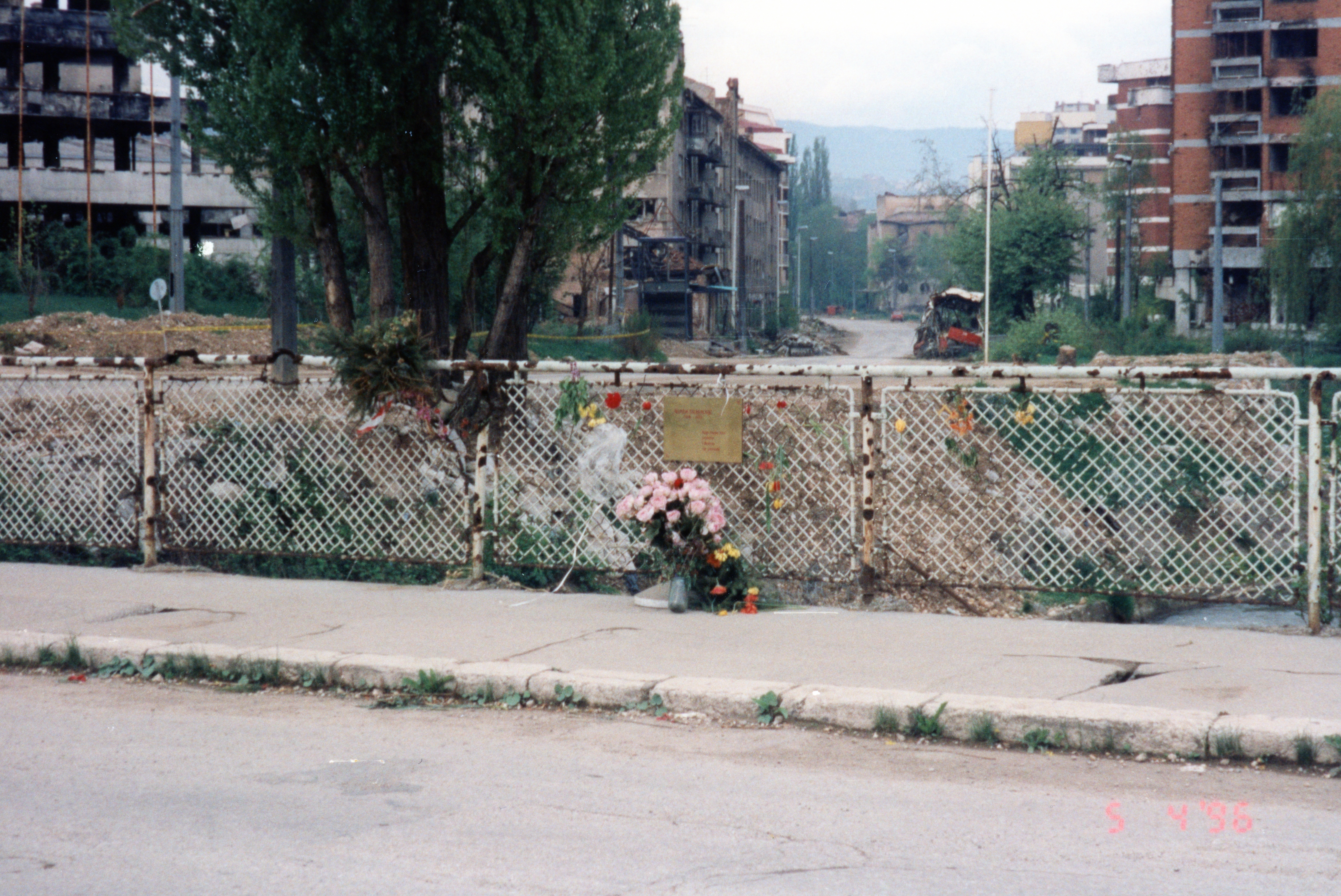 This is the bridge where Sarajevo's "Romeo and Juliet" were killed by sniper fire. A memorial wreath can be seen at the railing. It was later rebuilt and renamed the Suada and Olga bridge in their memory.